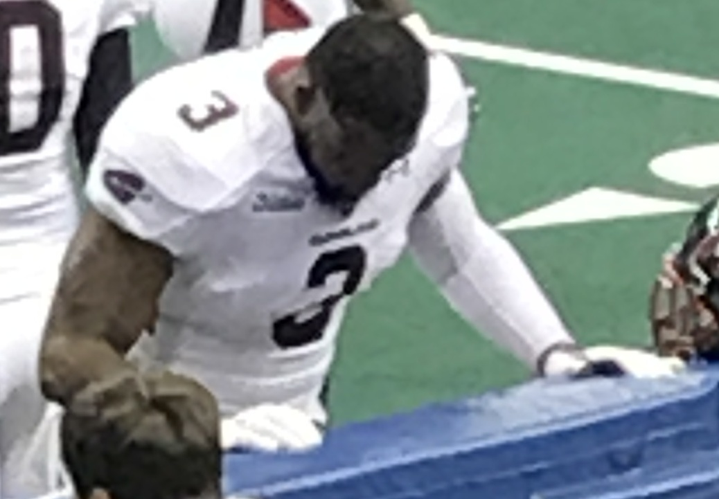 Darryl Cato-Bishop stretching